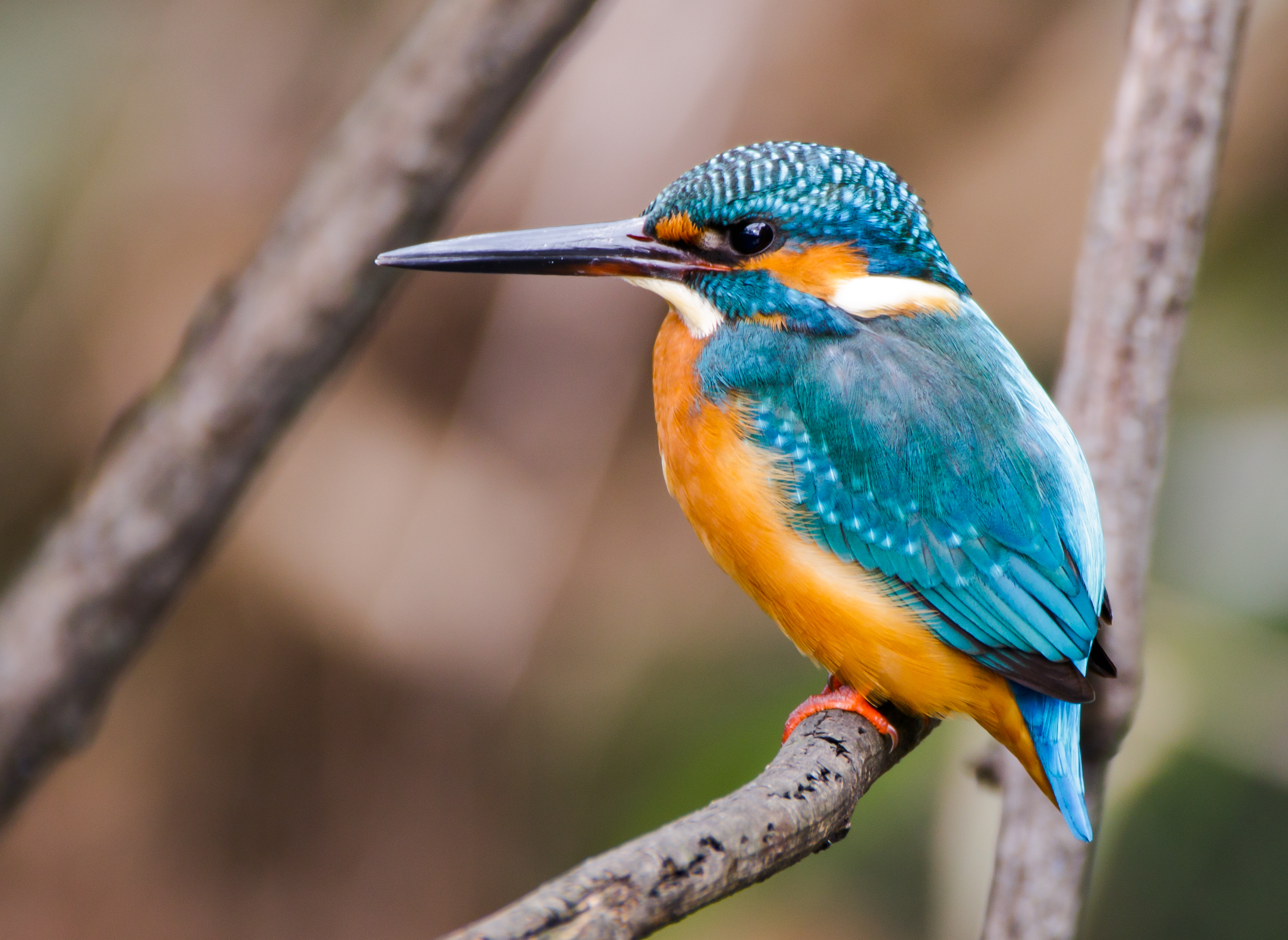 Common kingfisher at Tennōji Park in Osaka.